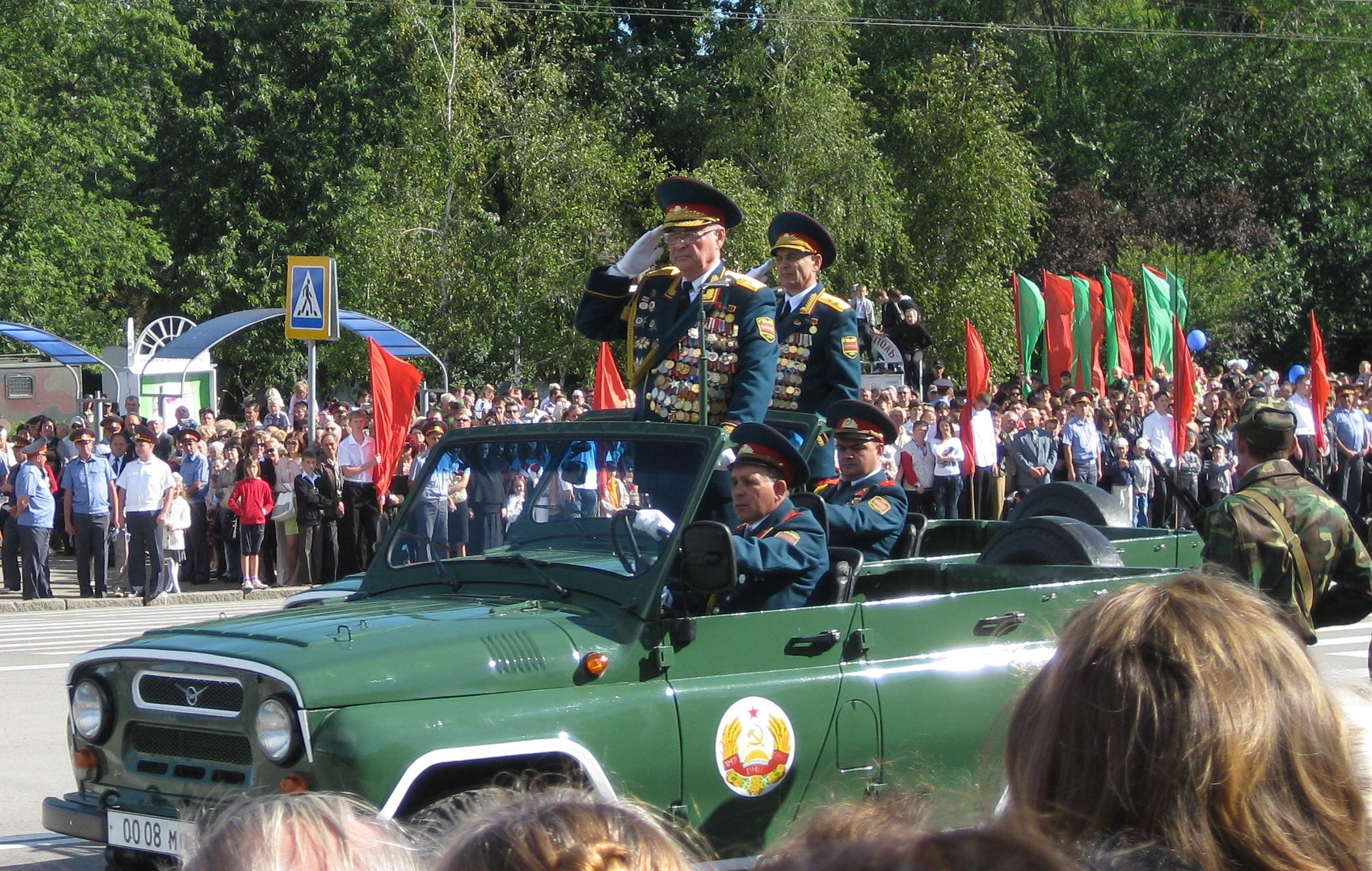 High ranked militaries on the "20 years PMR" military parade (2010)